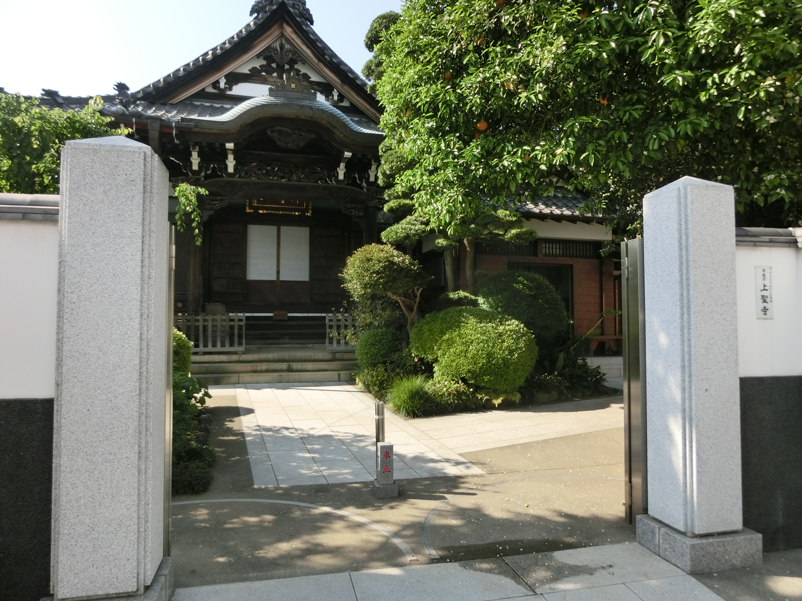 Josho-ji (Taito)